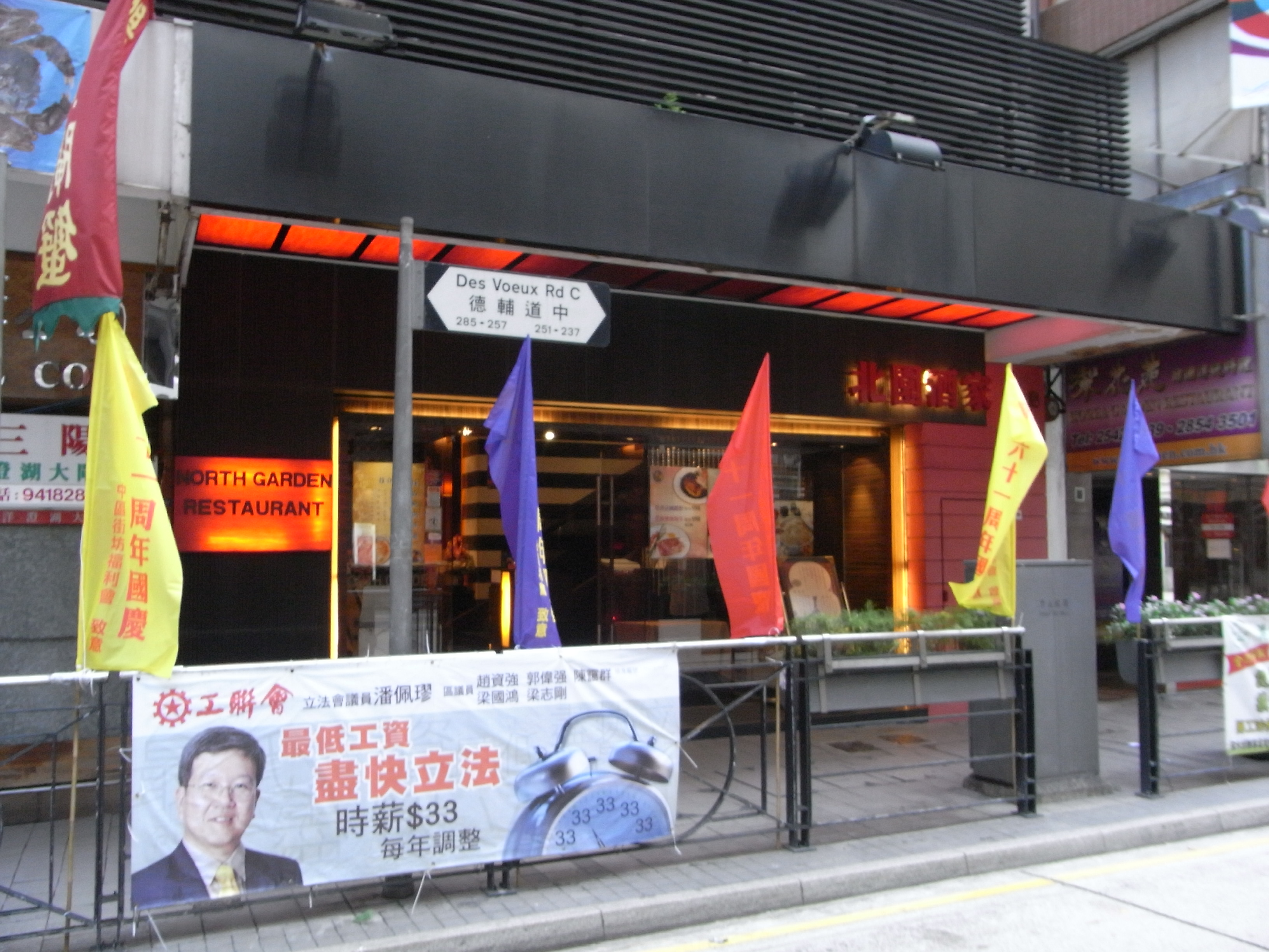 香港島2010年9月 德輔道中上環段